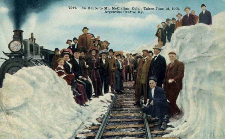 Postcard photo of passengers on the Argentine Central Railway in 1909.